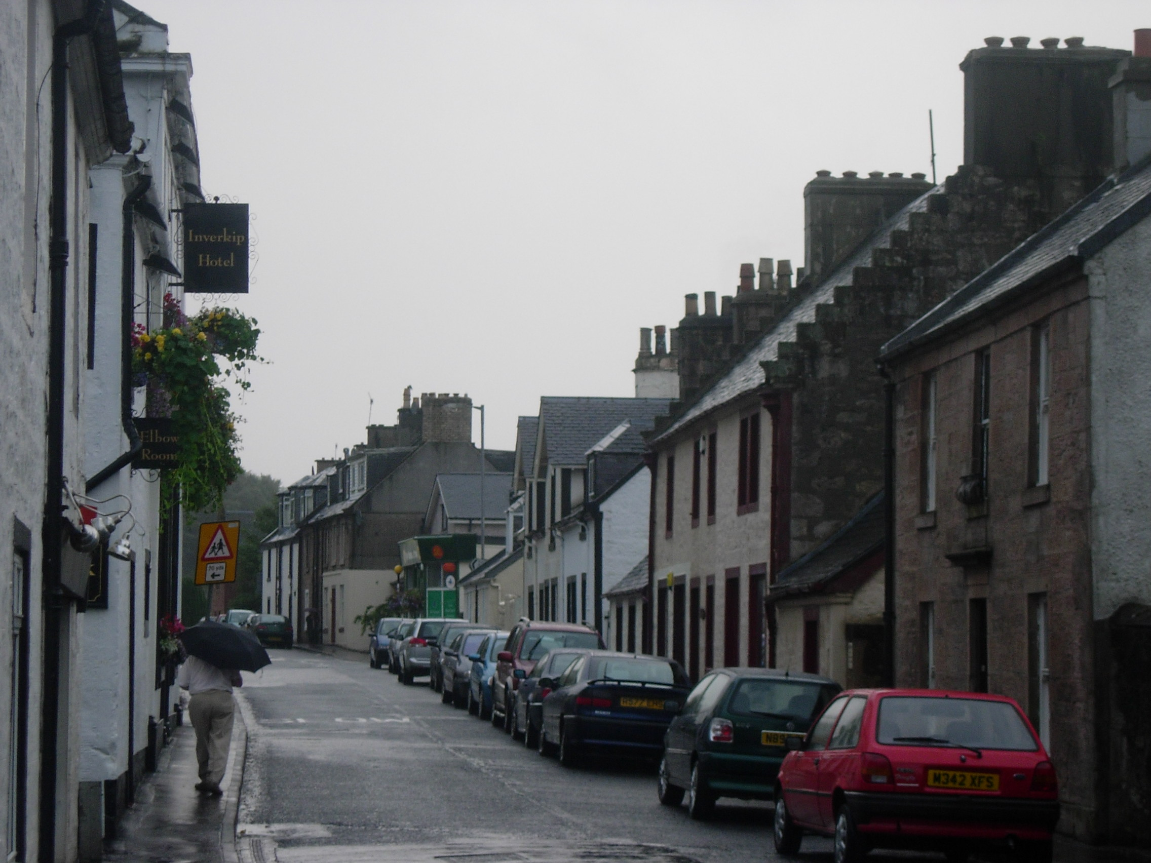 Inverkip Main Street on a rainy day, in August 2005